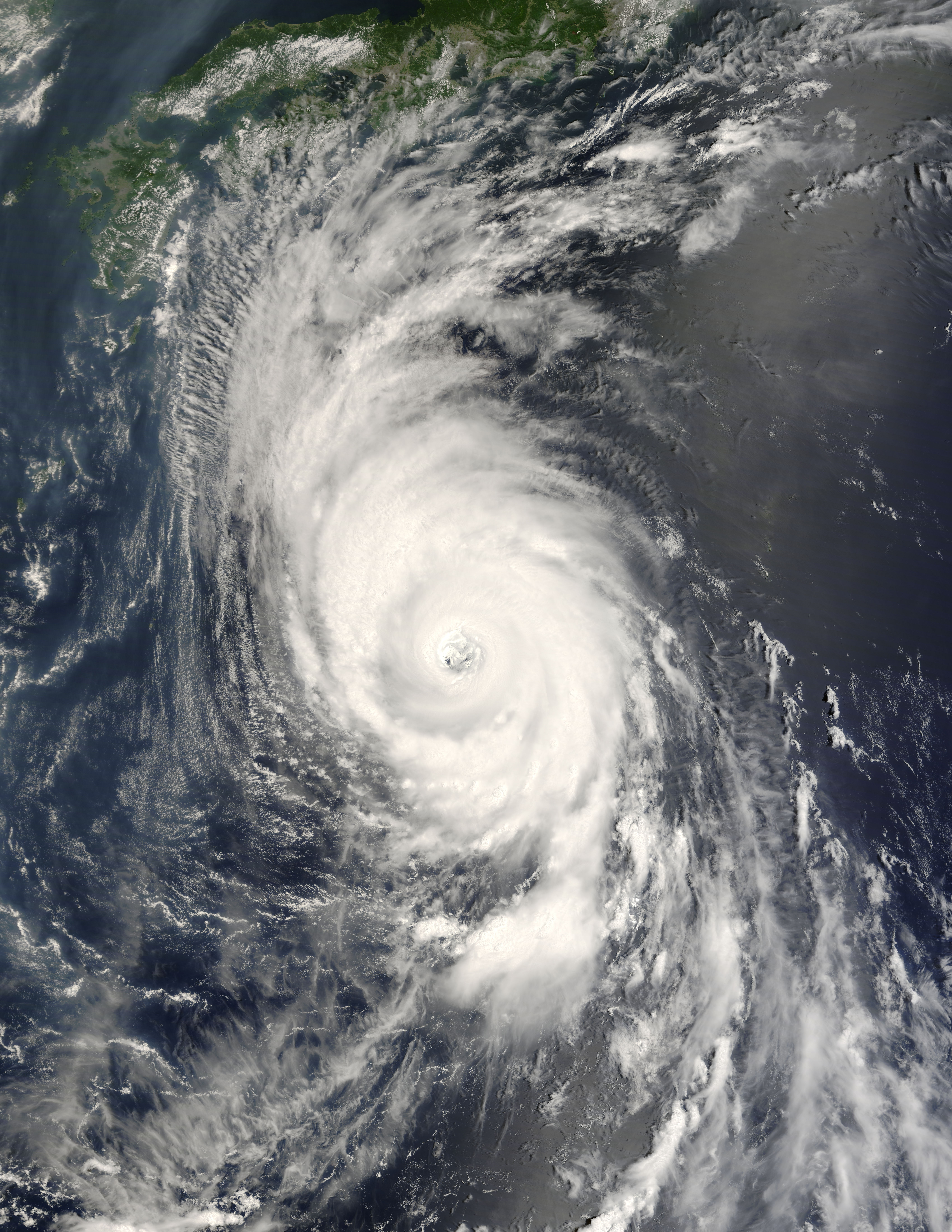 Category 4 Typhoon Usagi was stretched across the Pacific Ocean southeast of Japan in a long oval shape when the Moderate Resolution Imaging Spectroradiometer (MODIS) on NASA’s Terra satellite captured this image on August 1, 2007. The spiraling bands of rain clouds in the northwest quadrant of the storm appear to be reaching out for the islands of Shikoku and Honshu. Several large cities occupy these southern islands, which means millions of residents had to keep nervous eyes on the storm. Typhoon Usagi was at its maximum intensity when Terra MODIS captured this image on the morning on August 1. With its tightly wound bands of clouds, nearly symmetrical shape, and well-defined eye, Usagi bore the hallmarks of an extremely powerful tropical cyclone. At the time, the storm packed sustained winds of 222 kilometers per hour (120 knots or 138 miles per hour) with gusts to 269 km/hr (145 knots of 167 mph). Usagi weakened slightly in the hours that followed, and was forecast to weaker further before striking Japan late on August 2 or early on August 3, said the Joint Typhoon Warning Center. Usagi is the fifth named storm in the western Pacific in 2007, and it is the second Category 4 storm to form in July. Its predecessor, Man-Yi, also troubled Japan. It pounded Okinawa and then veered northeastward, raking the east coast of the southern islands. According to the Japan Meteorological Agency, August and September are the most active months for tropical cyclones in this part of the Pacific, with an average of 5.5 and 5.1 storms, respectively. The large image provided above has a spatial resolution (level of detail) of 250 meters per pixel. The MODIS Rapid Response Team provides this image in additional resolutions.